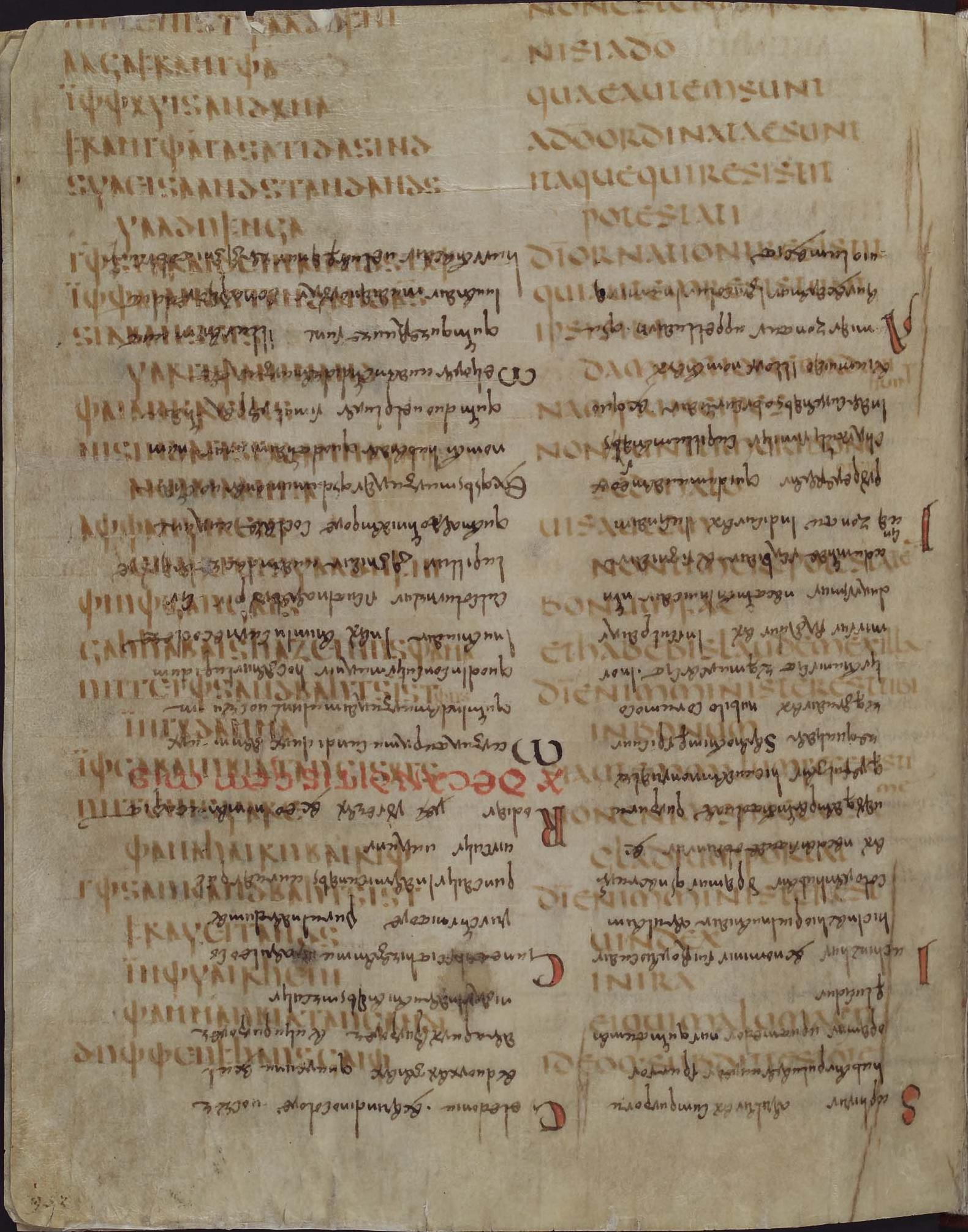 the leaf contains fragment of text of Epistle to the Romans in Gothic-Latin from the 6th century; it was overwritten in the 13th century by tractat of Isidor from Sevilla "Origines"